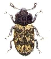 Synchita variegata, from Calwer's Käferbuch, Table 14, Picture 28. Taxonomy was updated to 2008, using mostly the sites Fauna Europaea and BioLib. Please contact Sarefo if the determination is wrong!